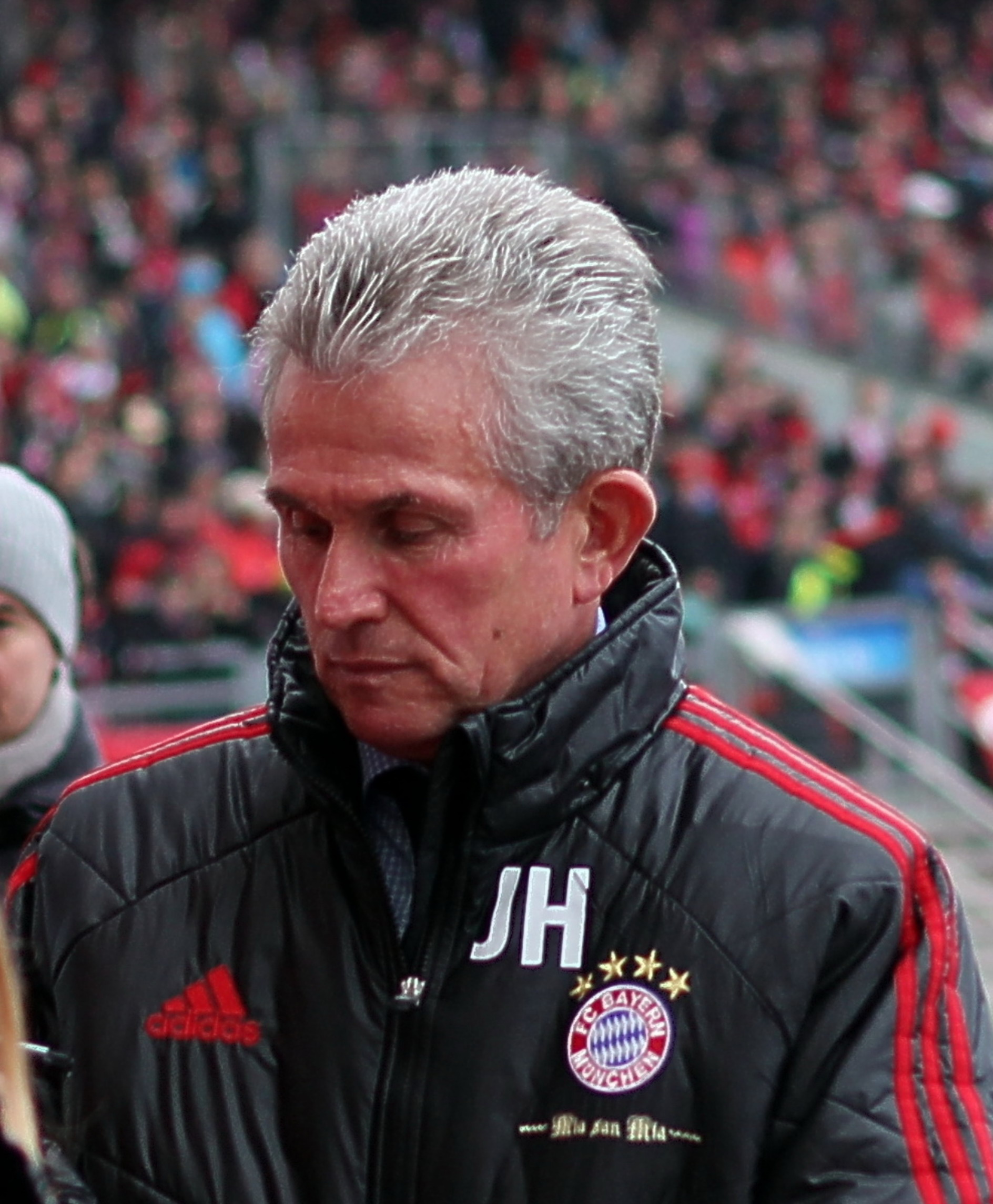 Jupp Heynckes, football coach for German side FC Bayern München, 2011/12 season